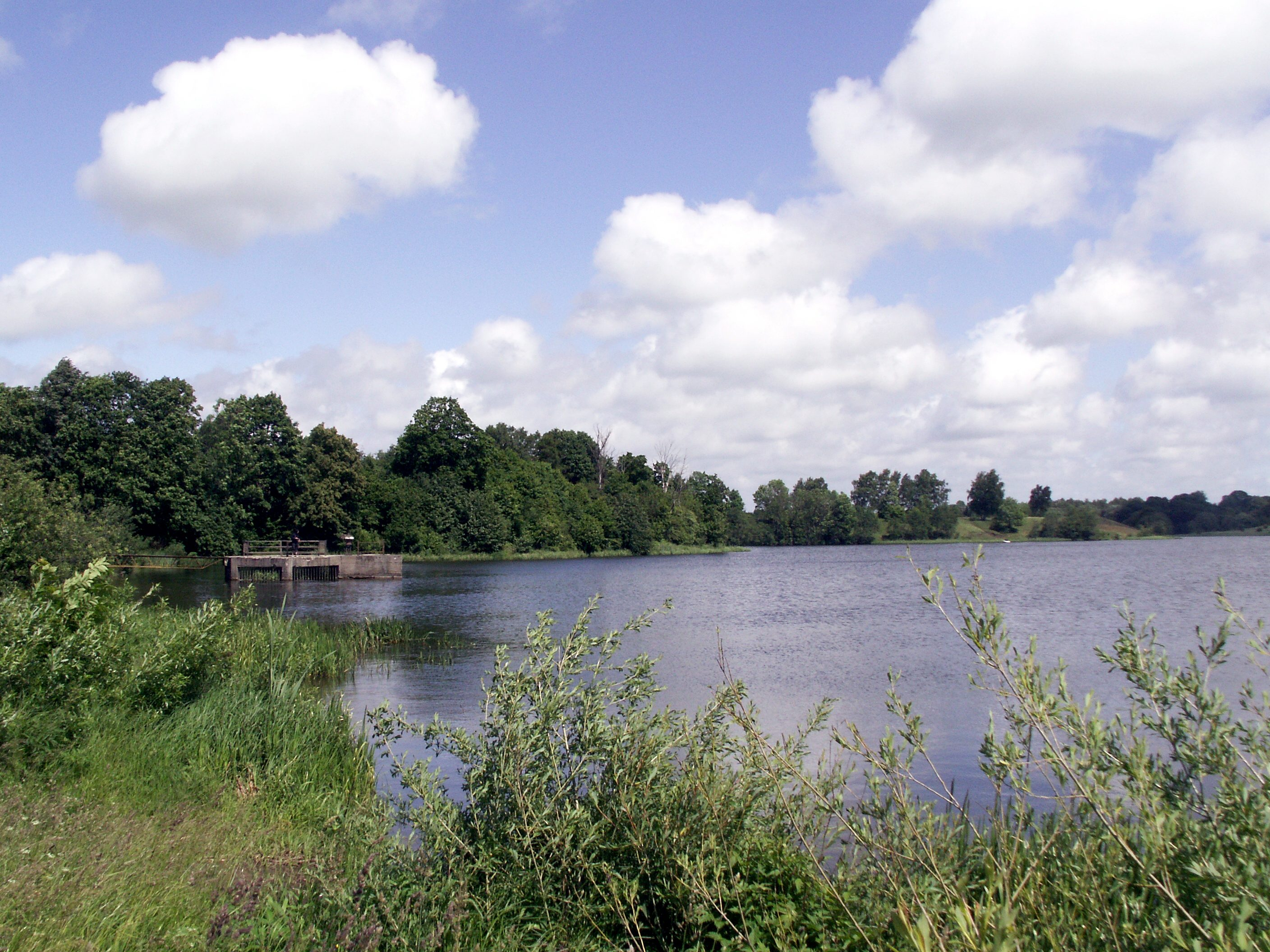 Hillfort Eketė, Klaipėda district, Lithuania